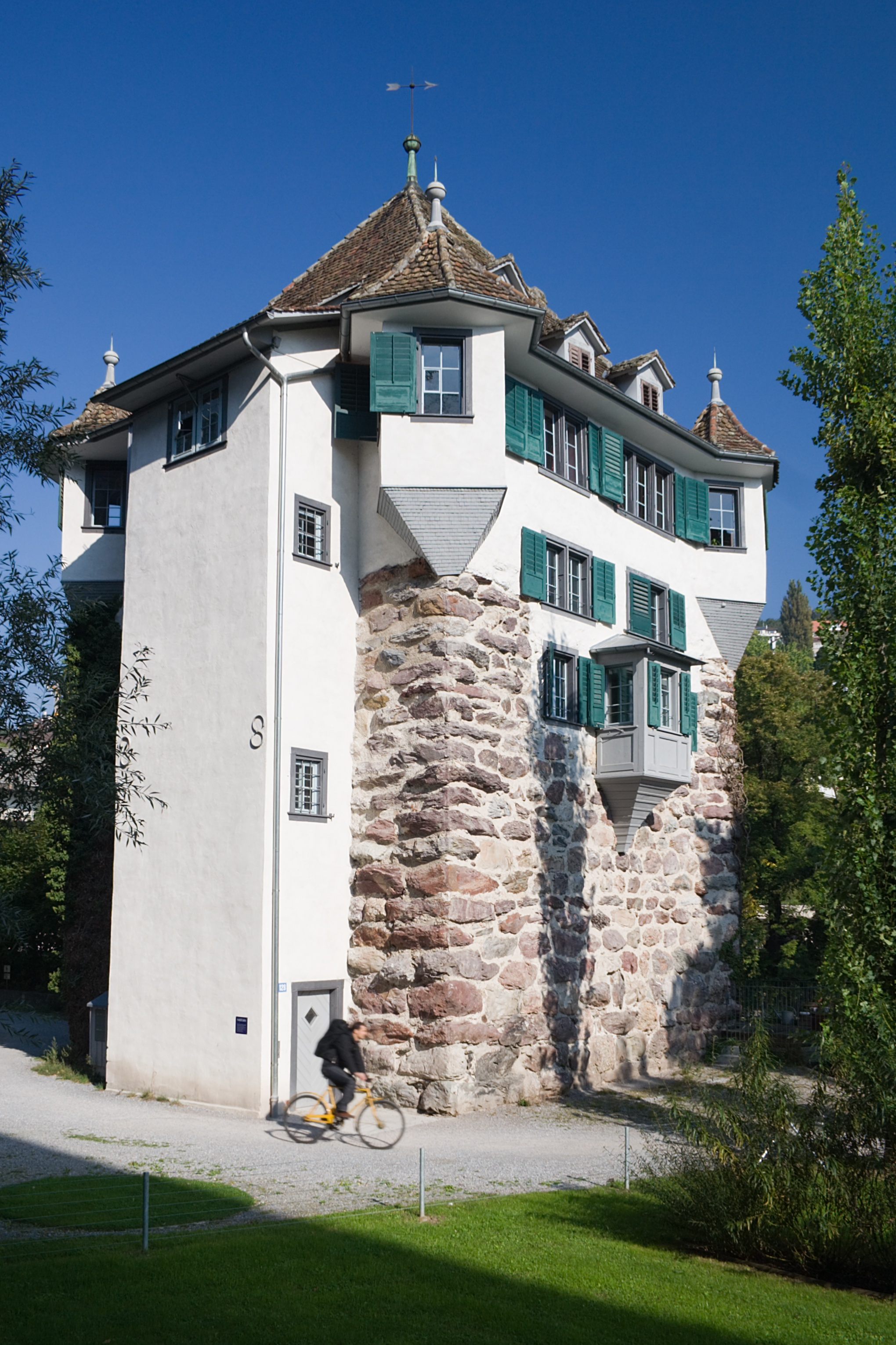 Barbican in Zurich built between 1250 and 1300, Switzerland